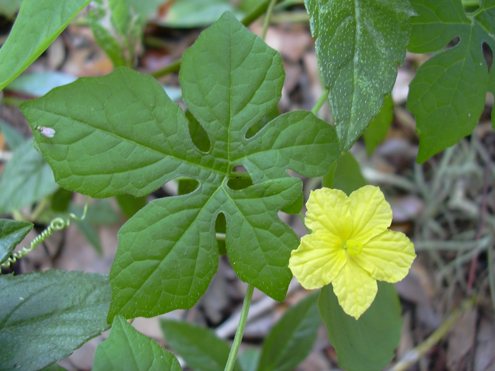 Momordica charantia (leaf and flower). Location: Florida, Sarasota